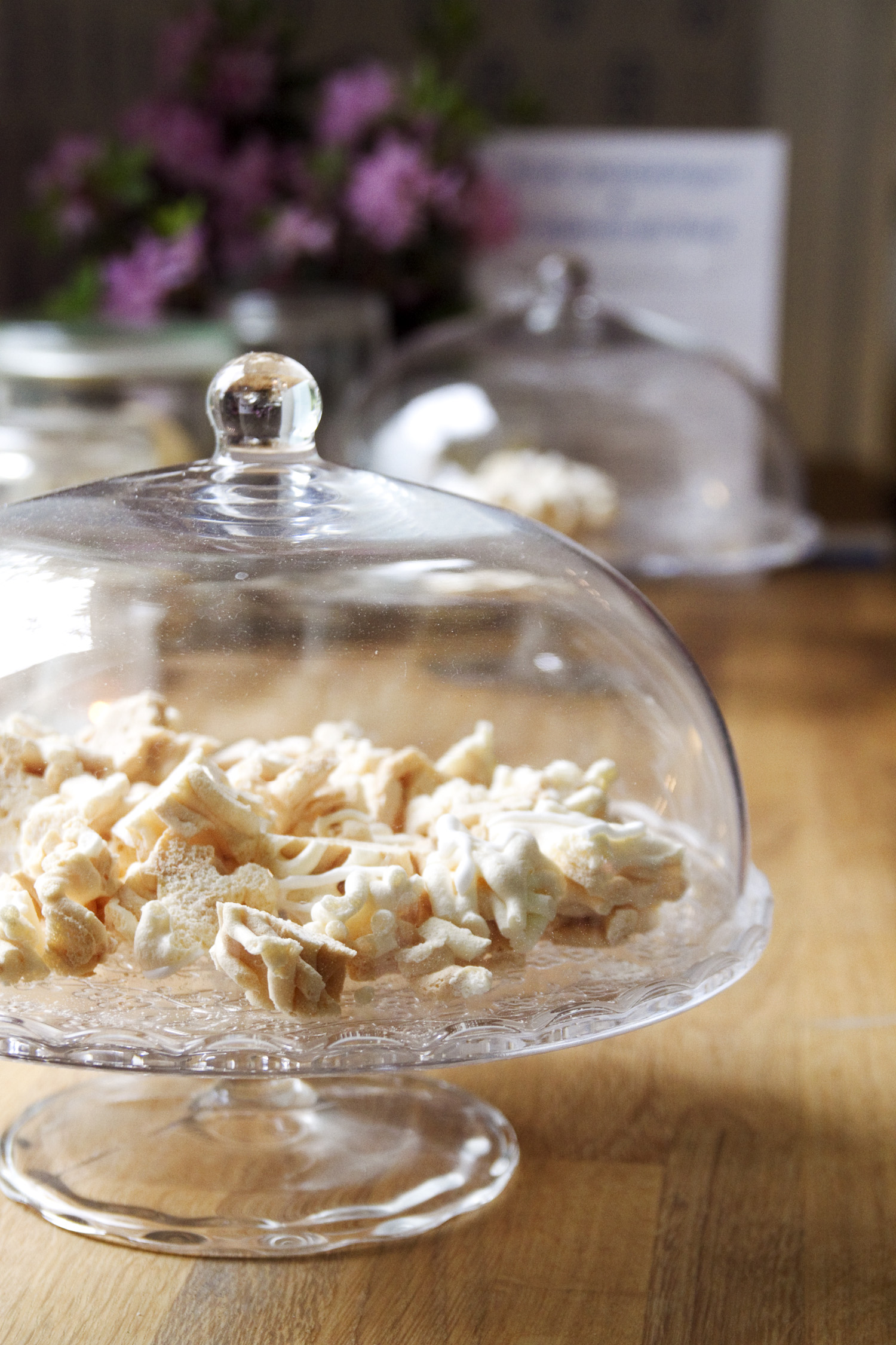 Pieces of Skånsk spettkaka, Scania – Sweden.